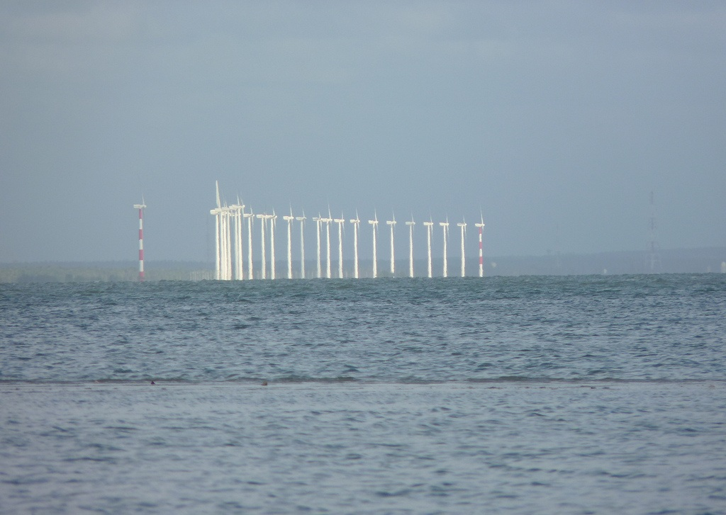 The Seguwantivu and Vidatamunai Wind Farms in Puttalam, Sri Lanka.